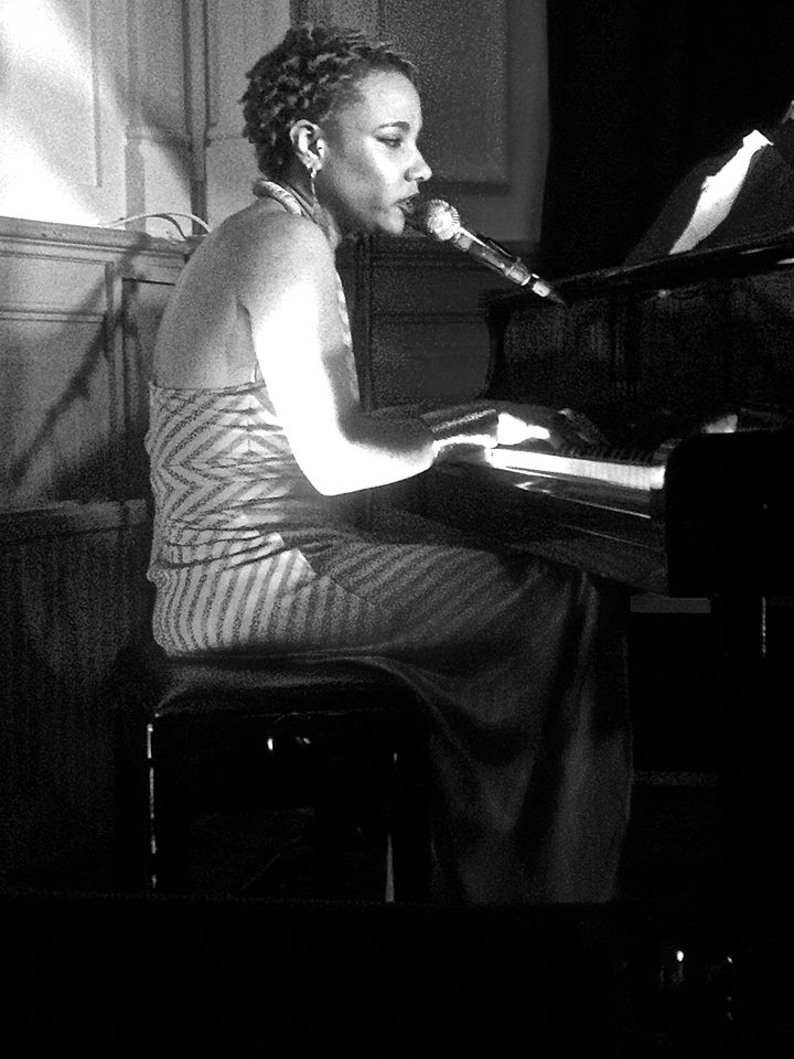 Soul singer Natalie Duncan performing at The Elgin in London.